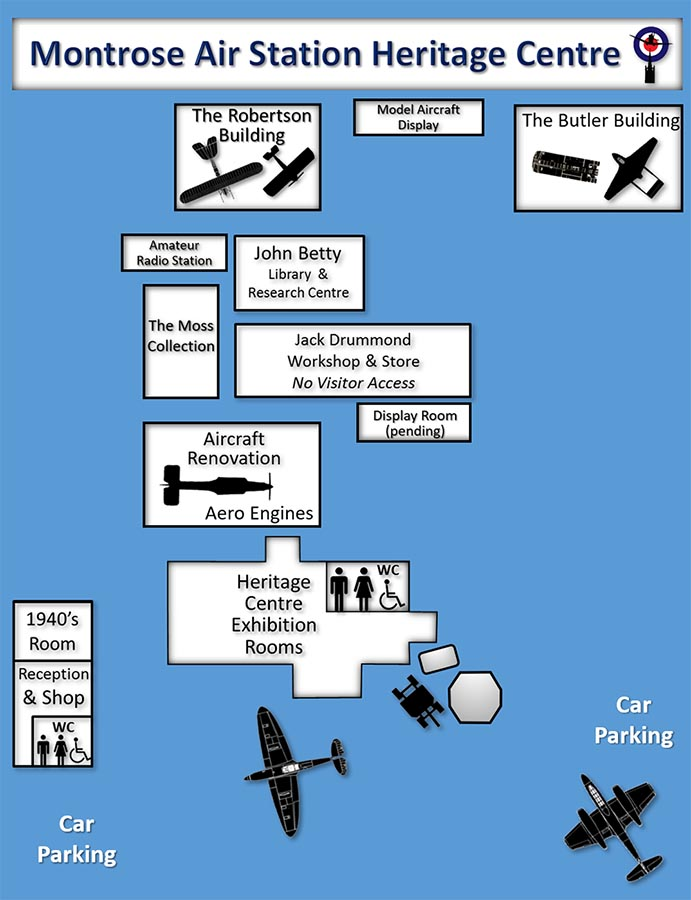 Montrose Air Station Heritage Centre Layout